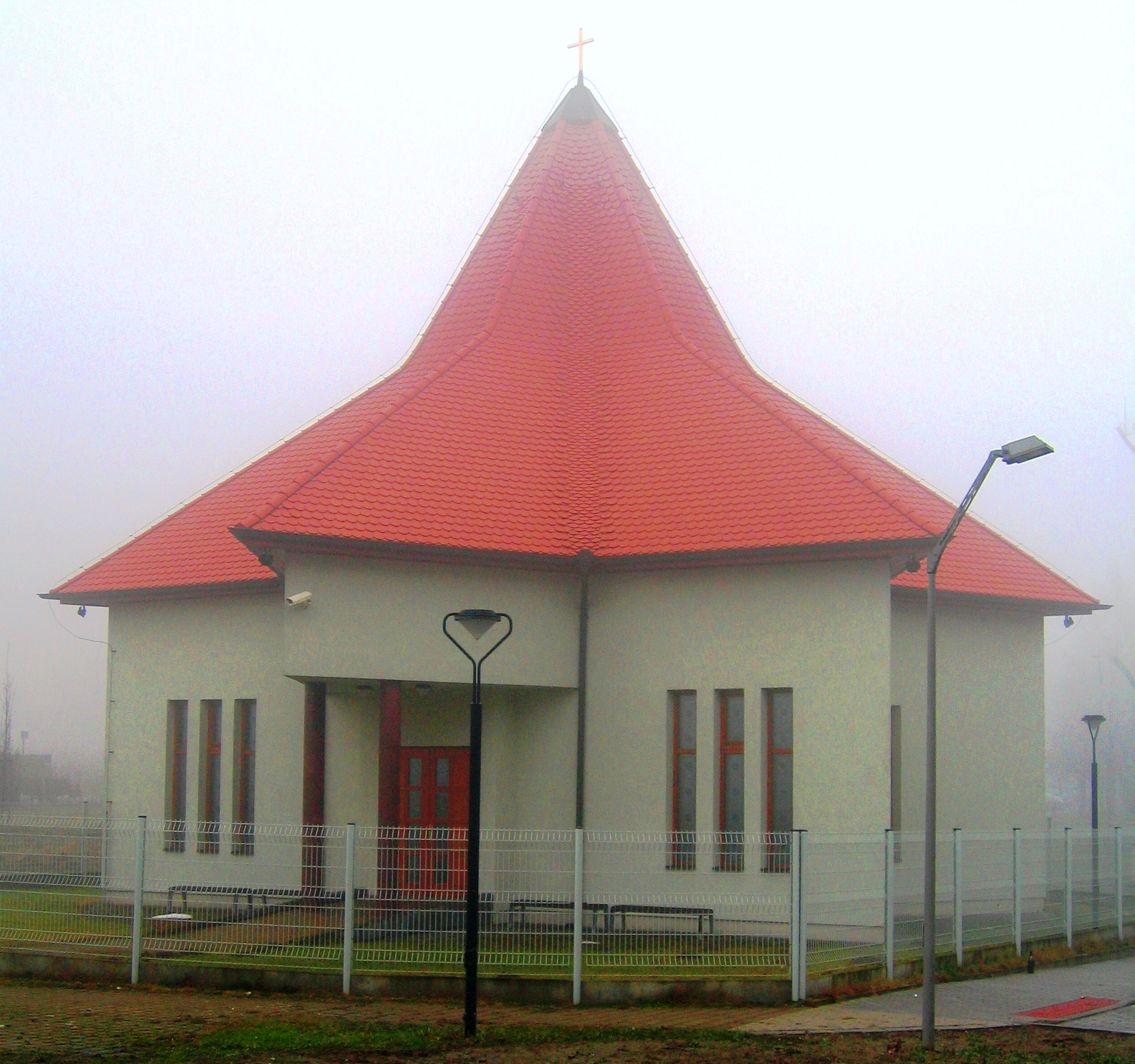 St. Charles Borromeo Church in Pisek (Czech Republic), built in 2000 in the form of six-pointed star